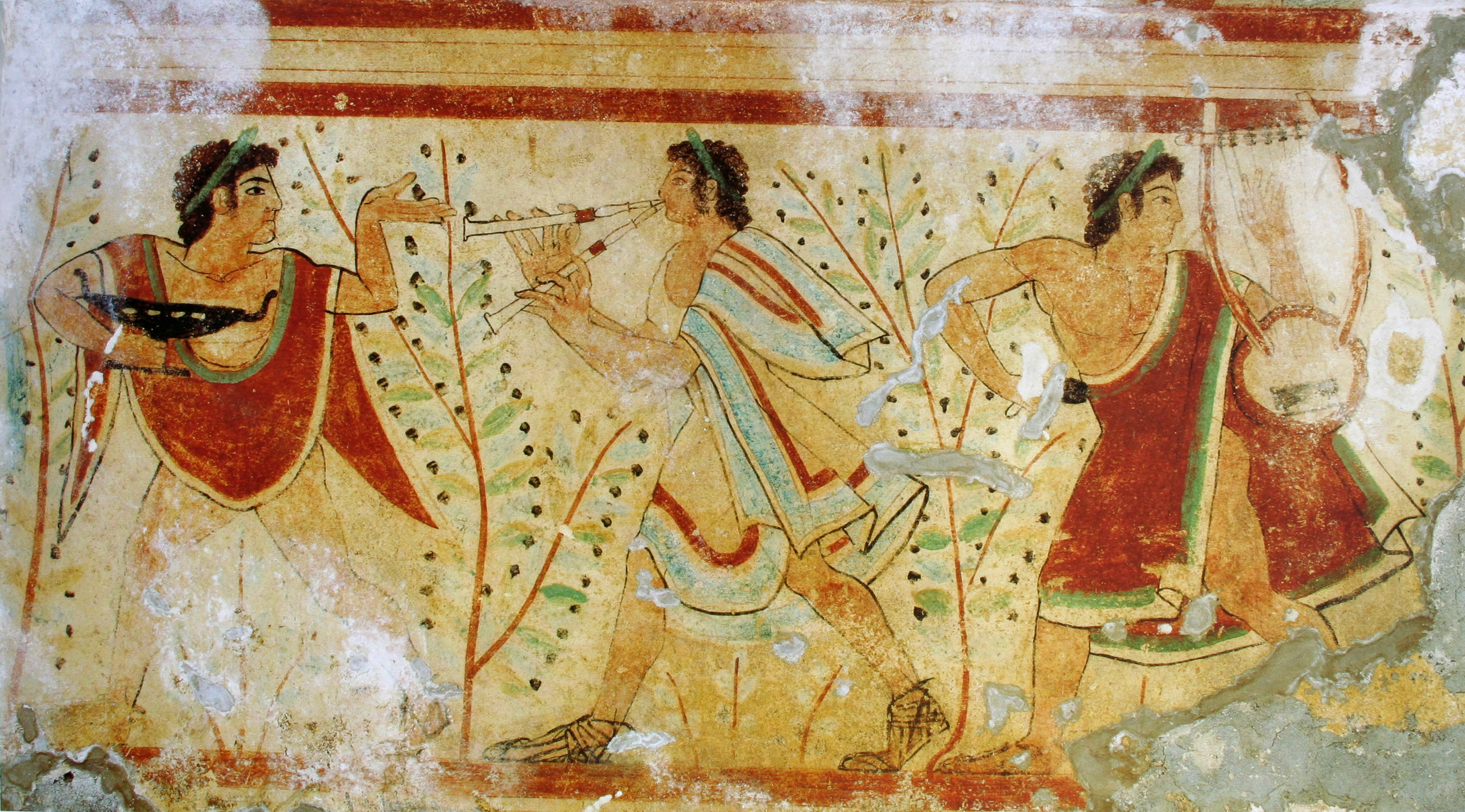 Dancers and musicians, tomb of the leopards, Monterozzi necropolis, Tarquinia, Italy. UNESCO World Heritage Site. Fresco a secco. Height (of the wall): 1.70 m.